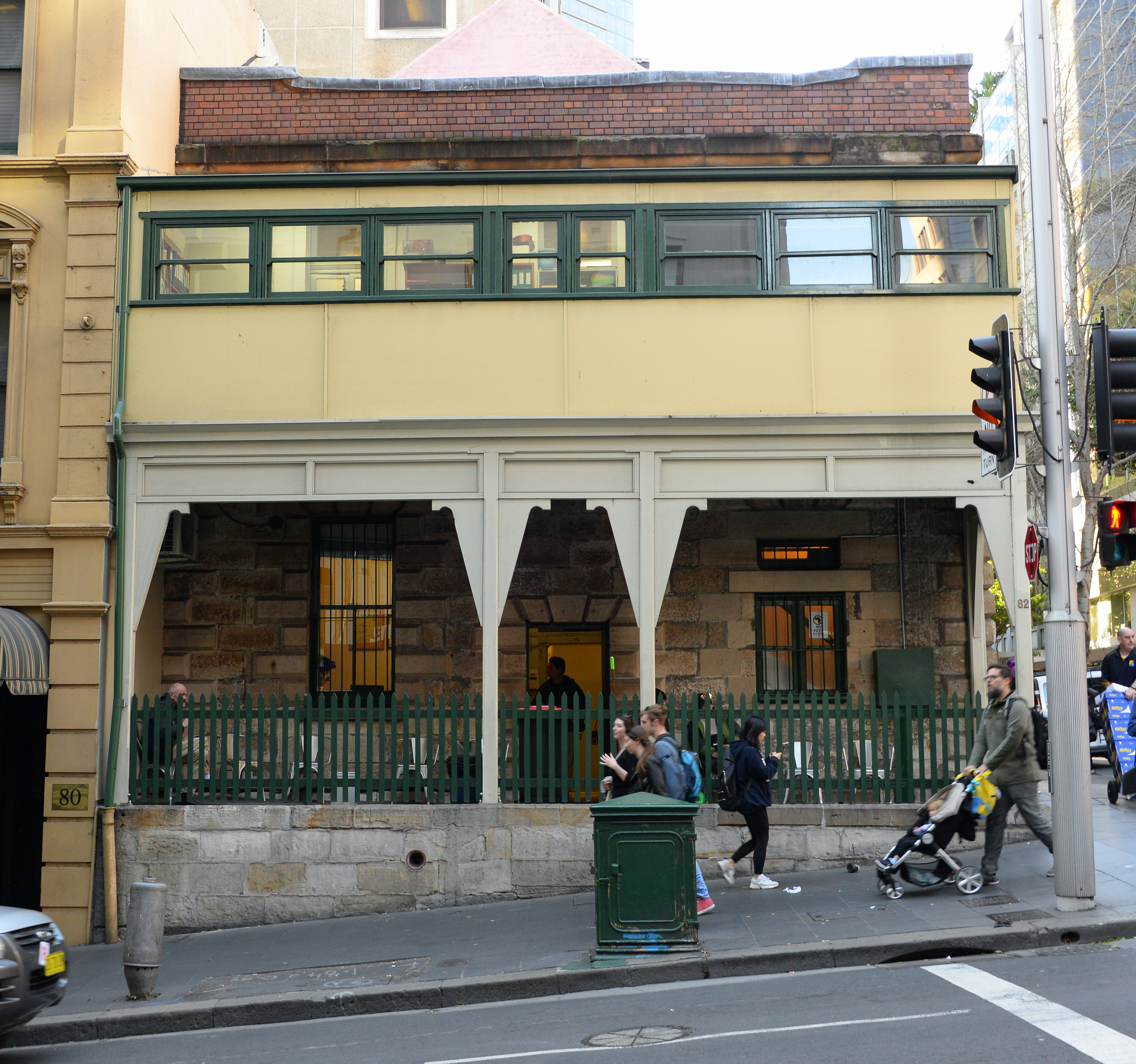 Heritage-listed former watch house, Erskine Street, Sydney, now used for charitable purposes